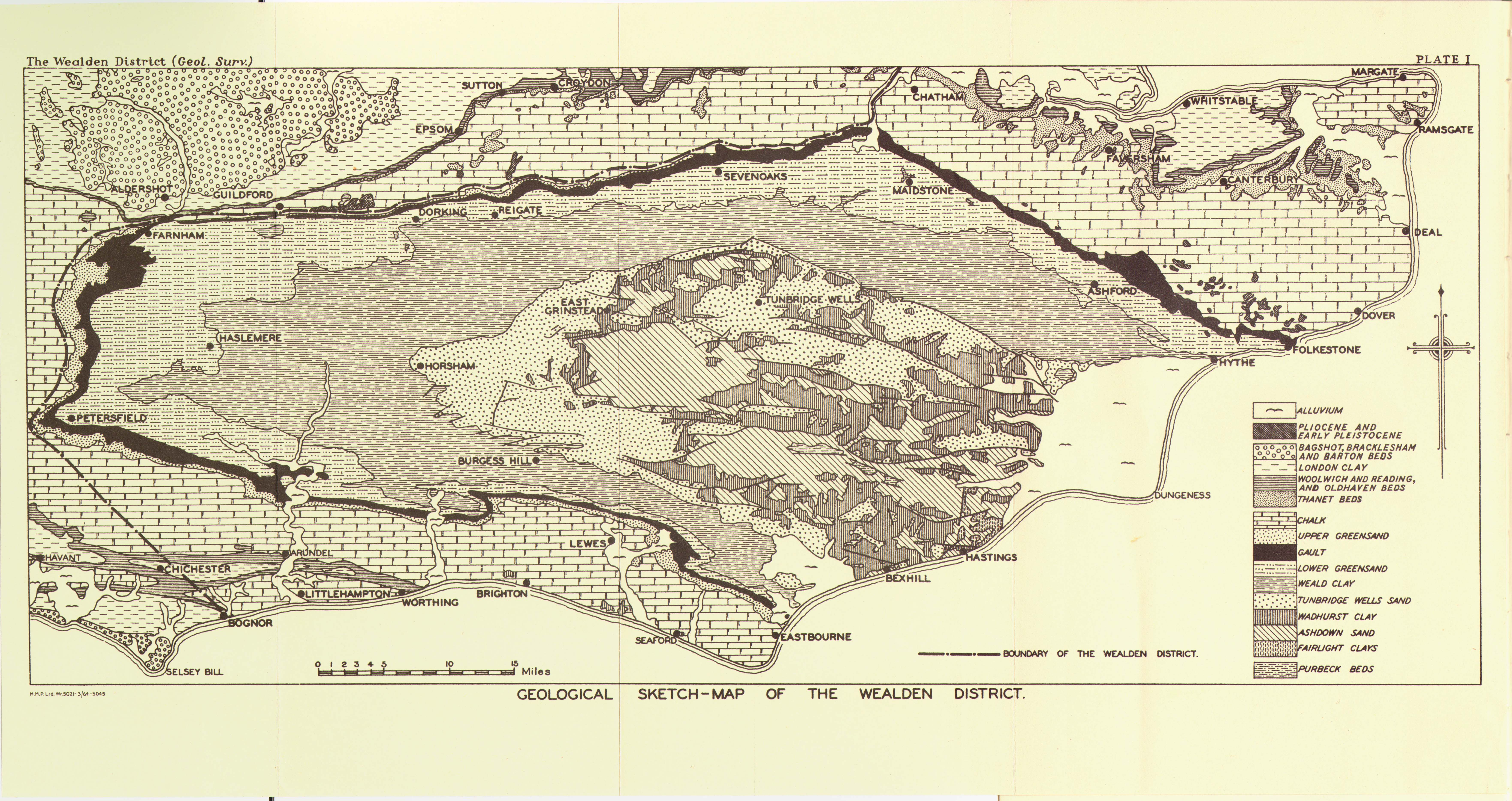 Geological sketch-map of the Wealden District, SE England. Plate 1 from The Wealden District in the British Regional Geology series